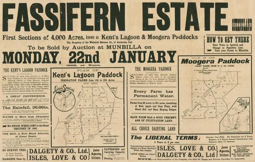 Estate map of Fassifern Estate including Moogera Paddocks and Kents Lagoon, Fassifern, Queensland, 1906 Estate map showing allotments to be sold by joint agents Dalgety & Co. and Isles, Love & Co. on the 27th January, 1906. The land was surveyed by H. C. Blakeney. The estate covered an area of 4000 acres with allotment sizes from 81acres to 269 acres. The map includes local sketches of the area.